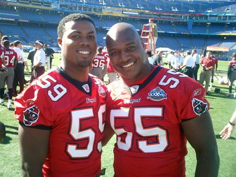 Super Bowl XXXVII